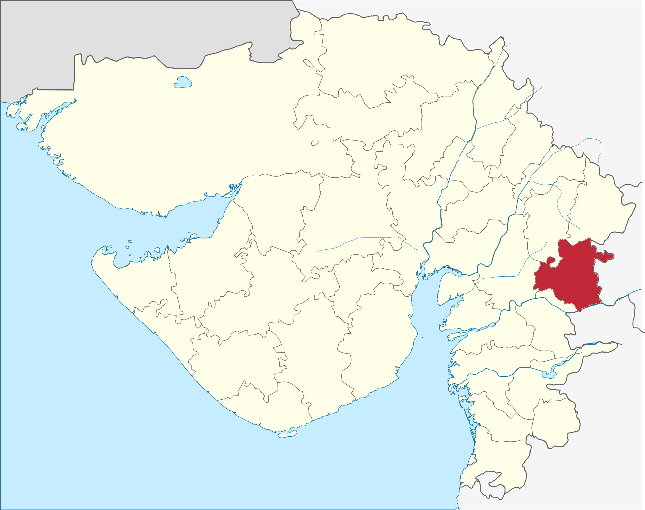 Location of Chhota Udaipur district in Gujrat